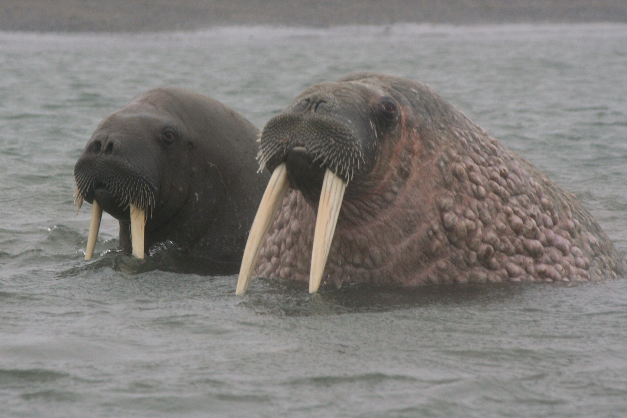 These were in a large group of Walrus near a haulout in Svalbard